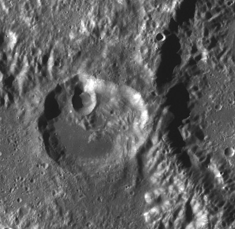 Zelinskiy lunar crater LRO WAC; Van der Graaf west rim at right